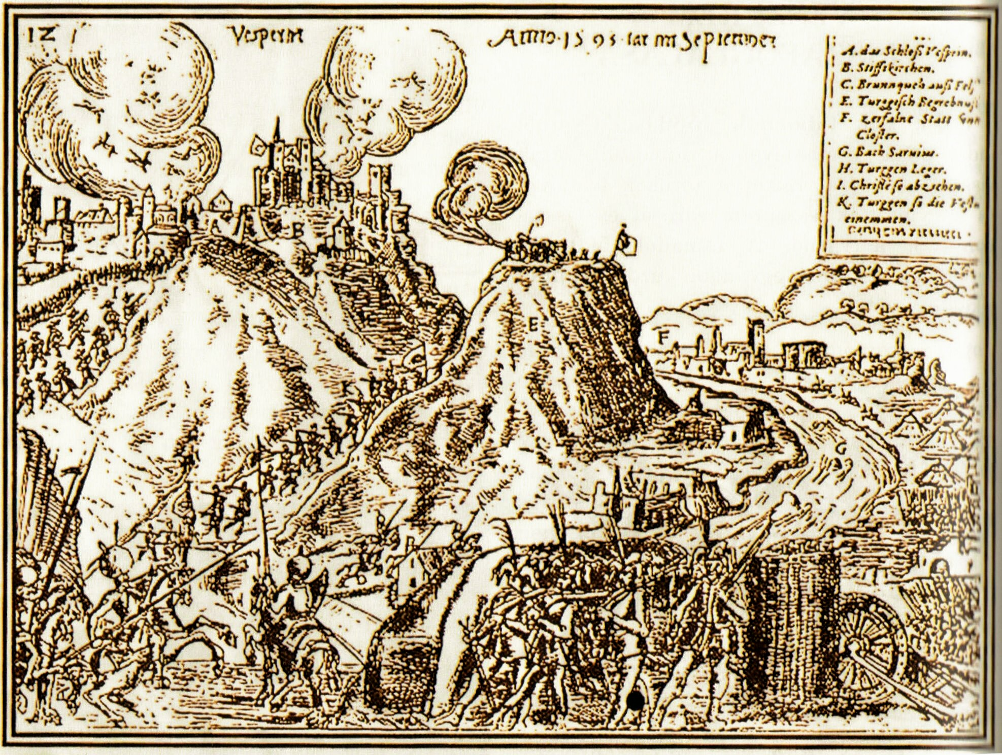 Siege of Veszprém by Turks, 1593